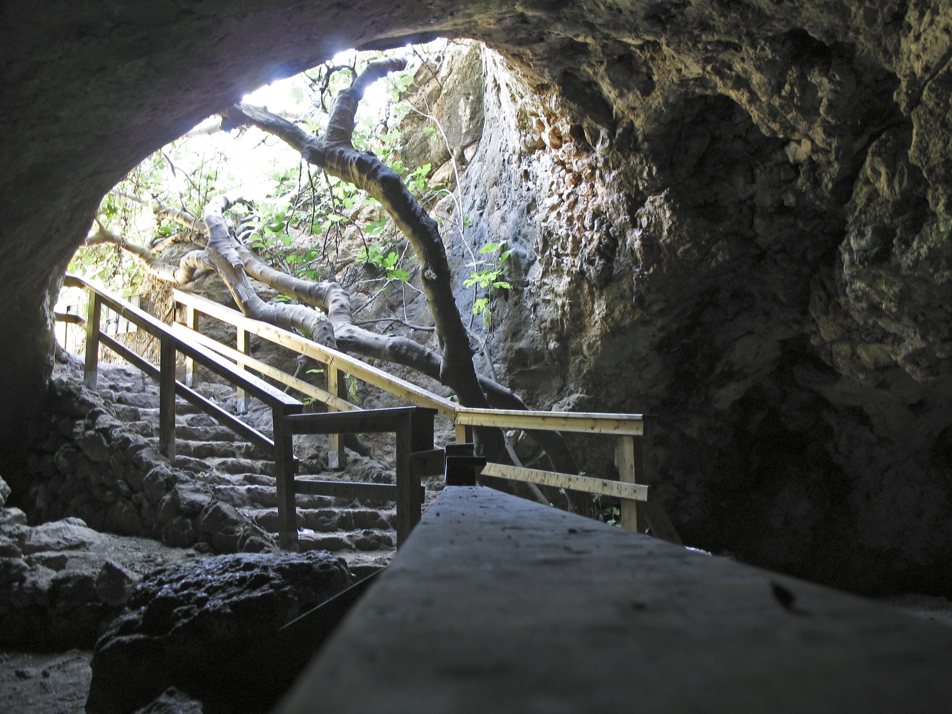 entrance of the "Twins cave" (from inside), Israel.